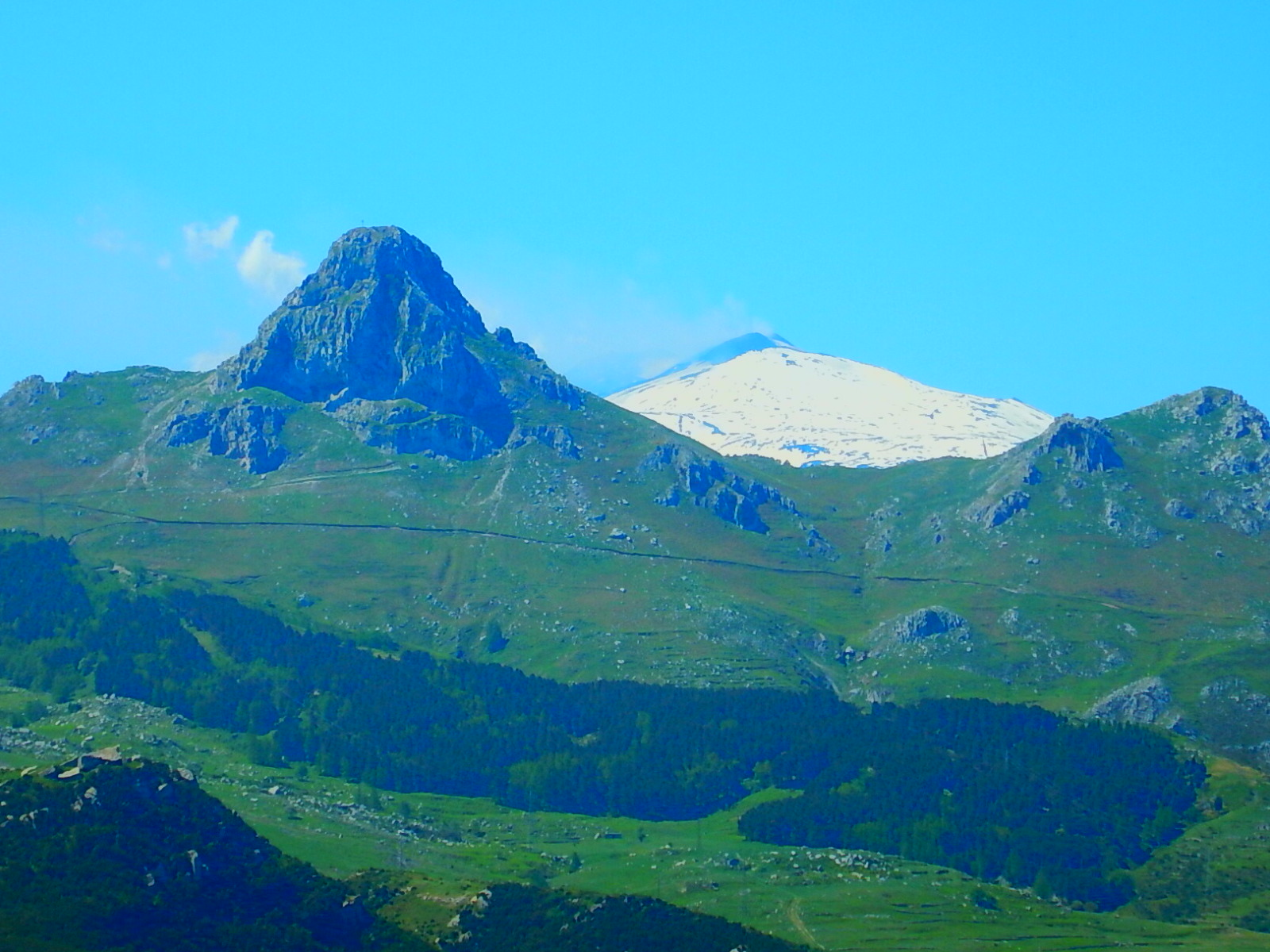 Etna beside the Rocca Salvatesta(Novara)from the slopes of Pizzo Russa, Peloritani.